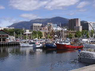 Hobart's harbour with views of city centre and mount Wellington